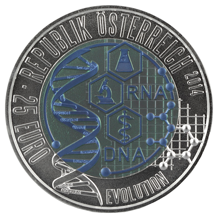 2014 Evolutionary biology — Austria 25 Euro‚ niobium and silver, 9 g silver 900/1000 and 6,5 g pure niobium (bicolor), d=34 mm, release date 22. January 2014, volume 65.000, designer Helmut Andexlinger